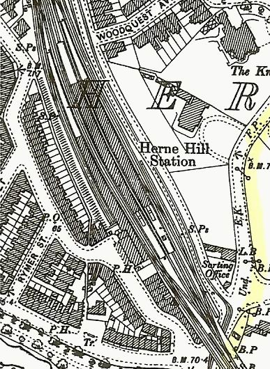 Herne Hill railway station as seen in the 1894 Ordnance Survey.